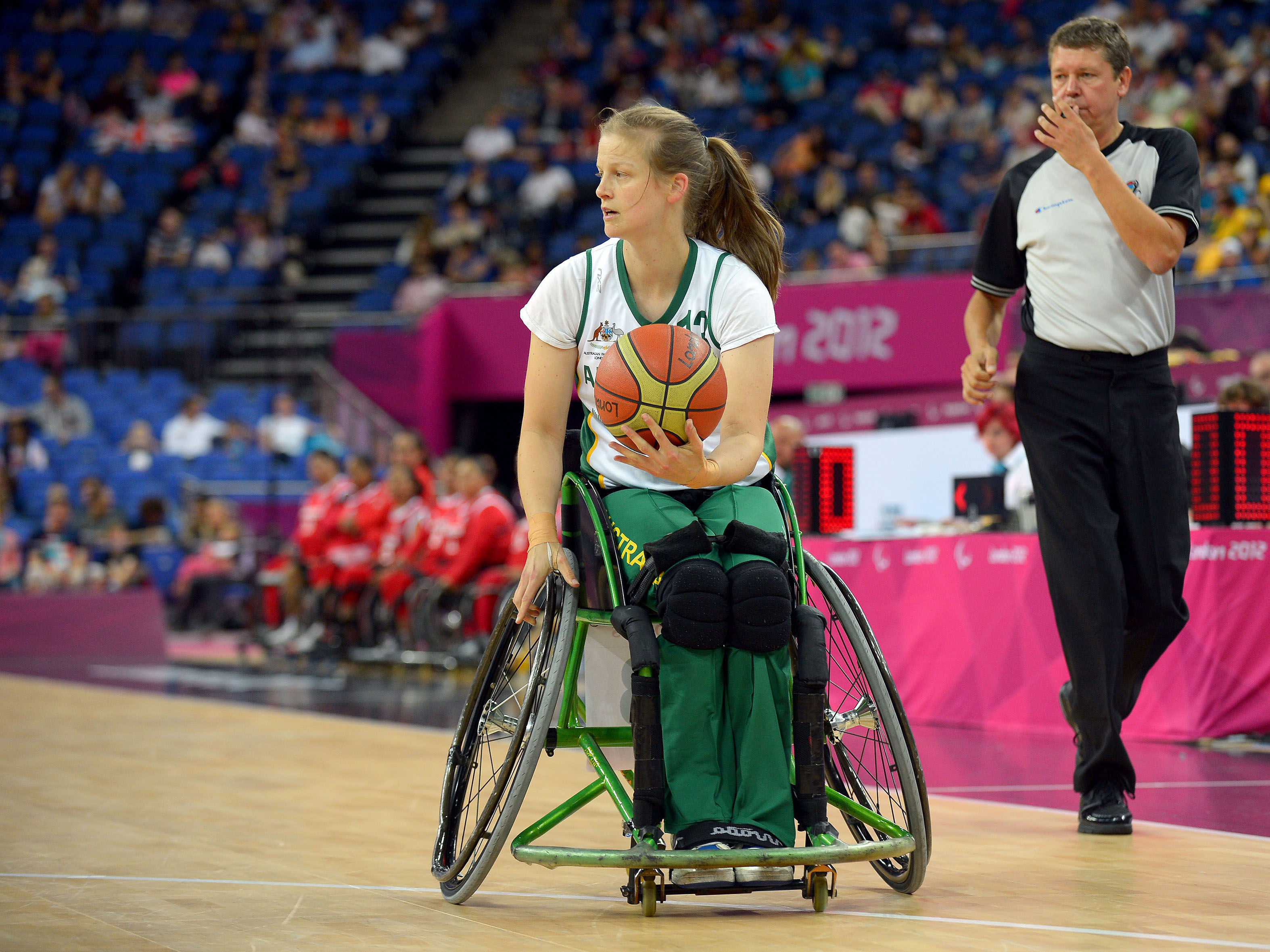 Photograph of Australian Paralympic team member Sarah Stewart at the 2012 Summer Paralympic Games in London